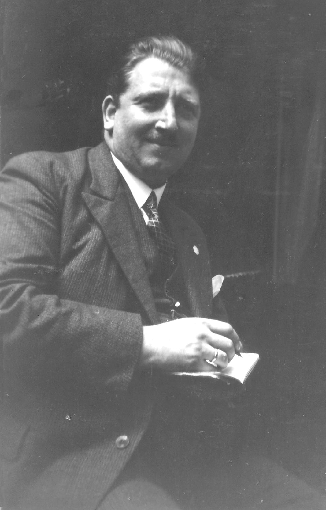 Joseph Roth as teacher at home